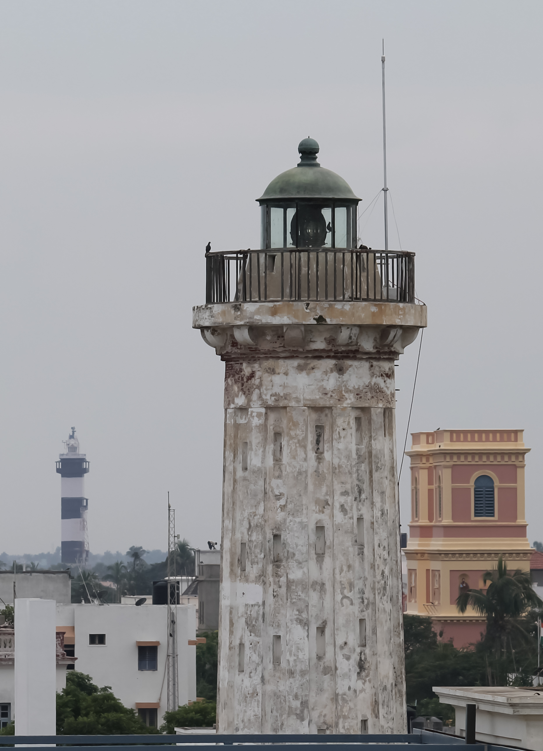 The new lighthouse at Pondichery is seen in the background, the old lighthouse is seen in the foreground.